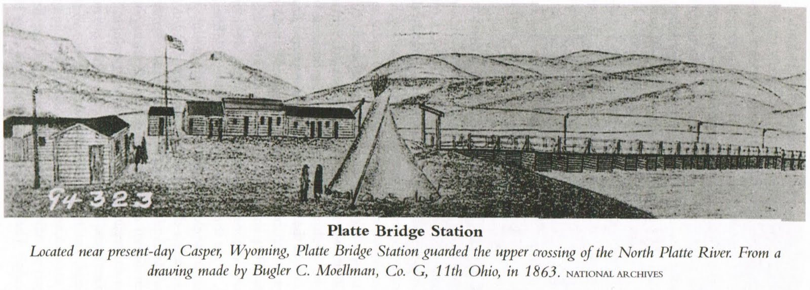 An 1863 drawing of Platte Bridge Station near present day Caspar, Wyoming